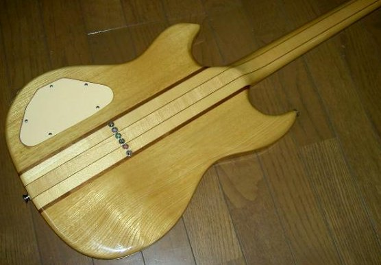 Aria TS-600, Back